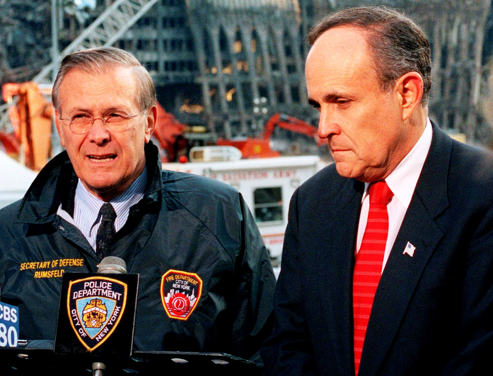 Secretary of Defense Donald Rumsfeld (left) and New York Mayor Rudy Giuliani (right) hold a joint media availability at the site of the World Trade Center disaster in lower Manhattan, on Nov. 14, 2001. Rumsfeld is visiting the site of the Sept. 11th disaster to speak to Giuliani, officials from the N.Y. Fire Department and the Office of Emergency Management.